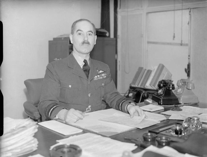 Air Marshal A G R Garrod, Member of Air Council for Training, at his desk at Adastral House, London.